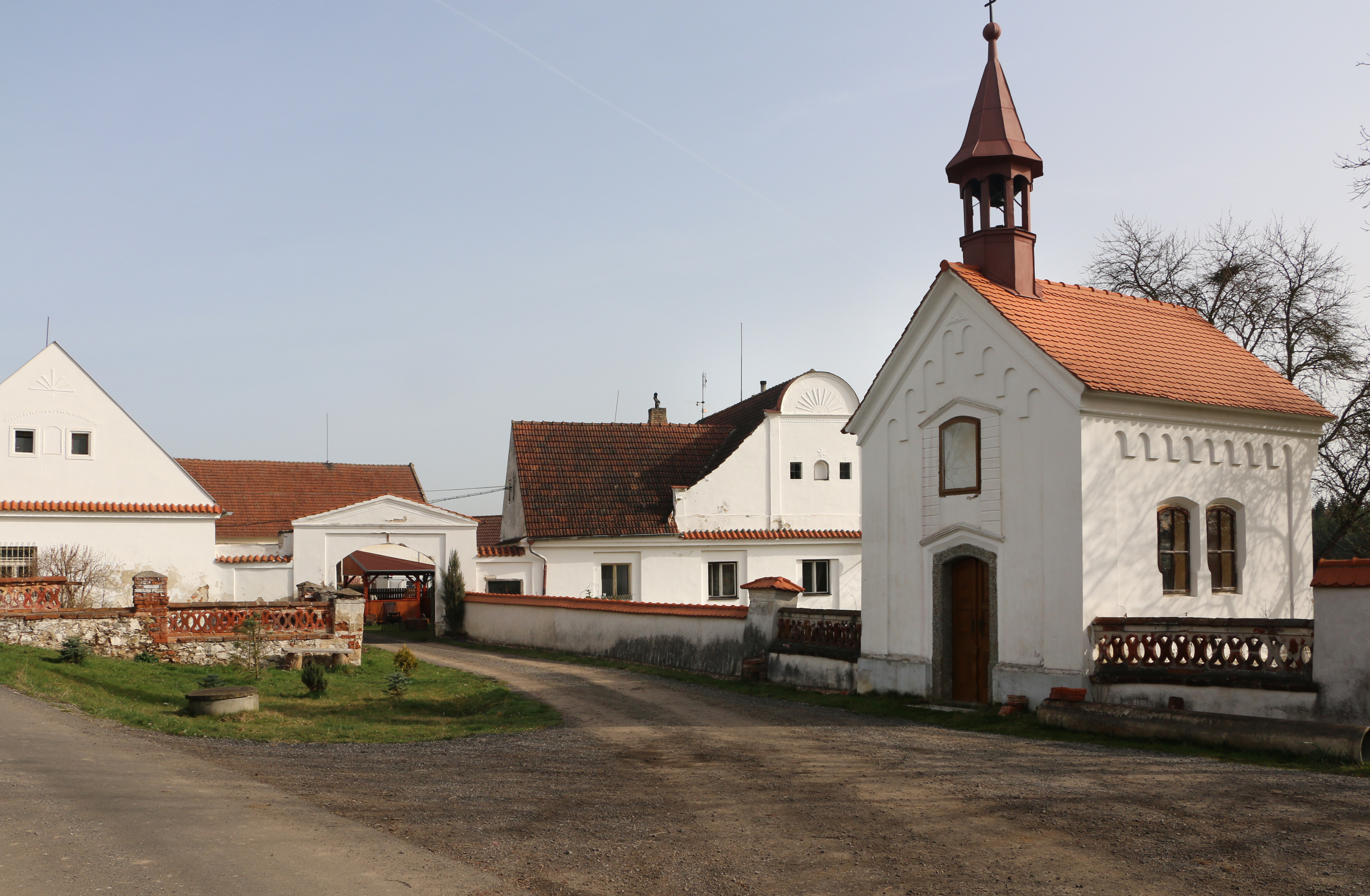 Common in Lhota Samoty, part of Planá nad Lužnicí, Czech Republic.